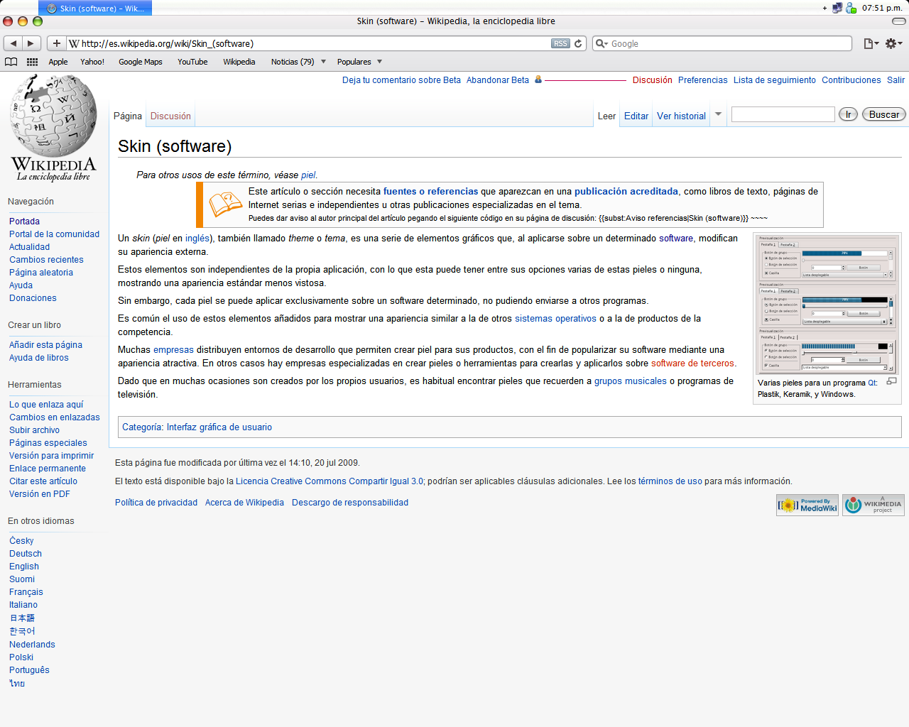 Microsoft© WIndows XP™ with Apple© Mac OS X™ Skin theme